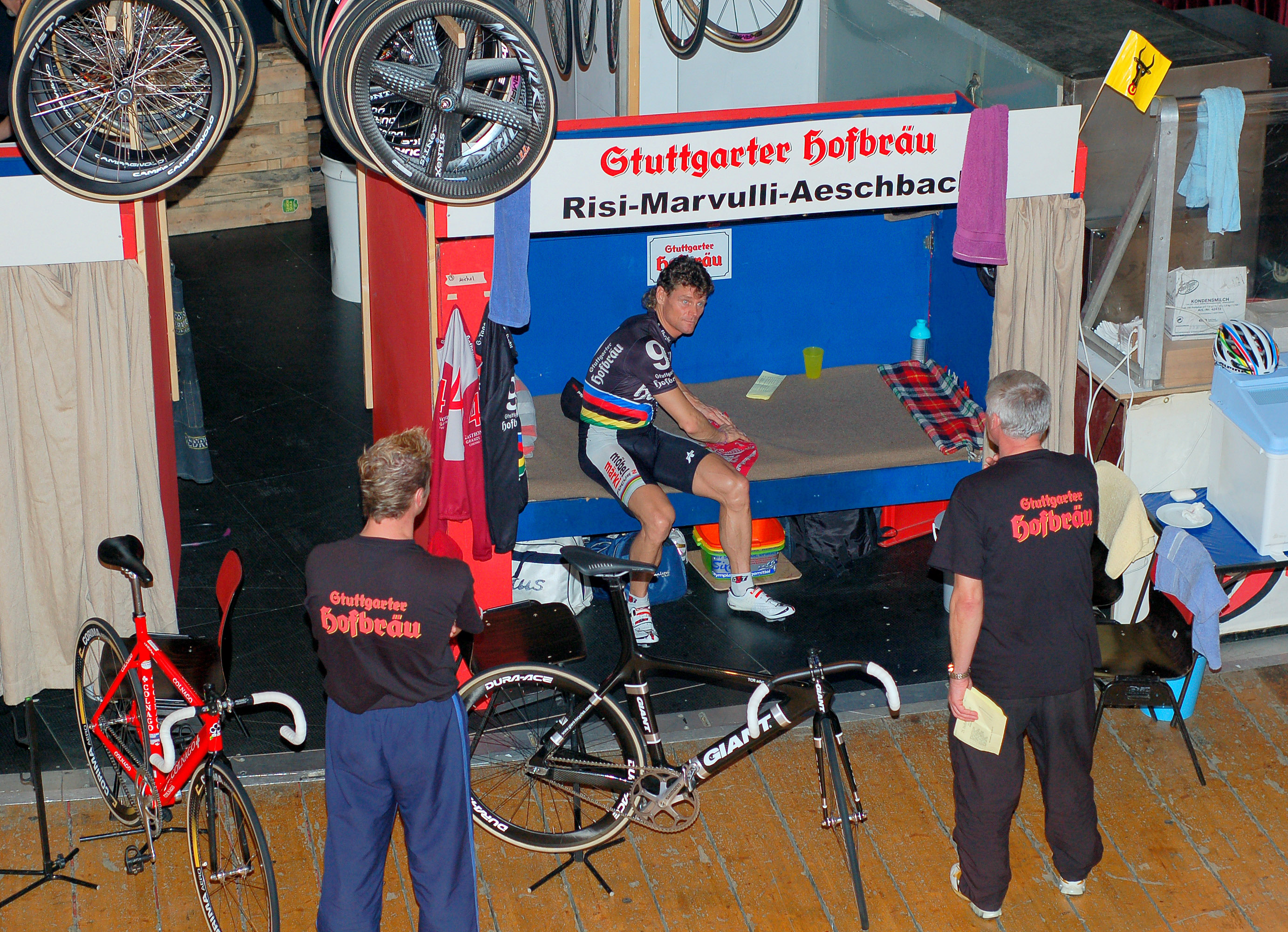 Bruno Risi during the six-days racing in Stuttgart on January 19th, 2008